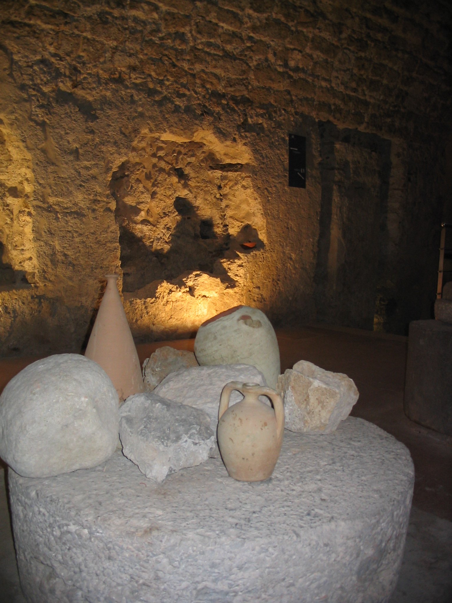 A room of the medieval castle of Arechi (Salerno, Italy)